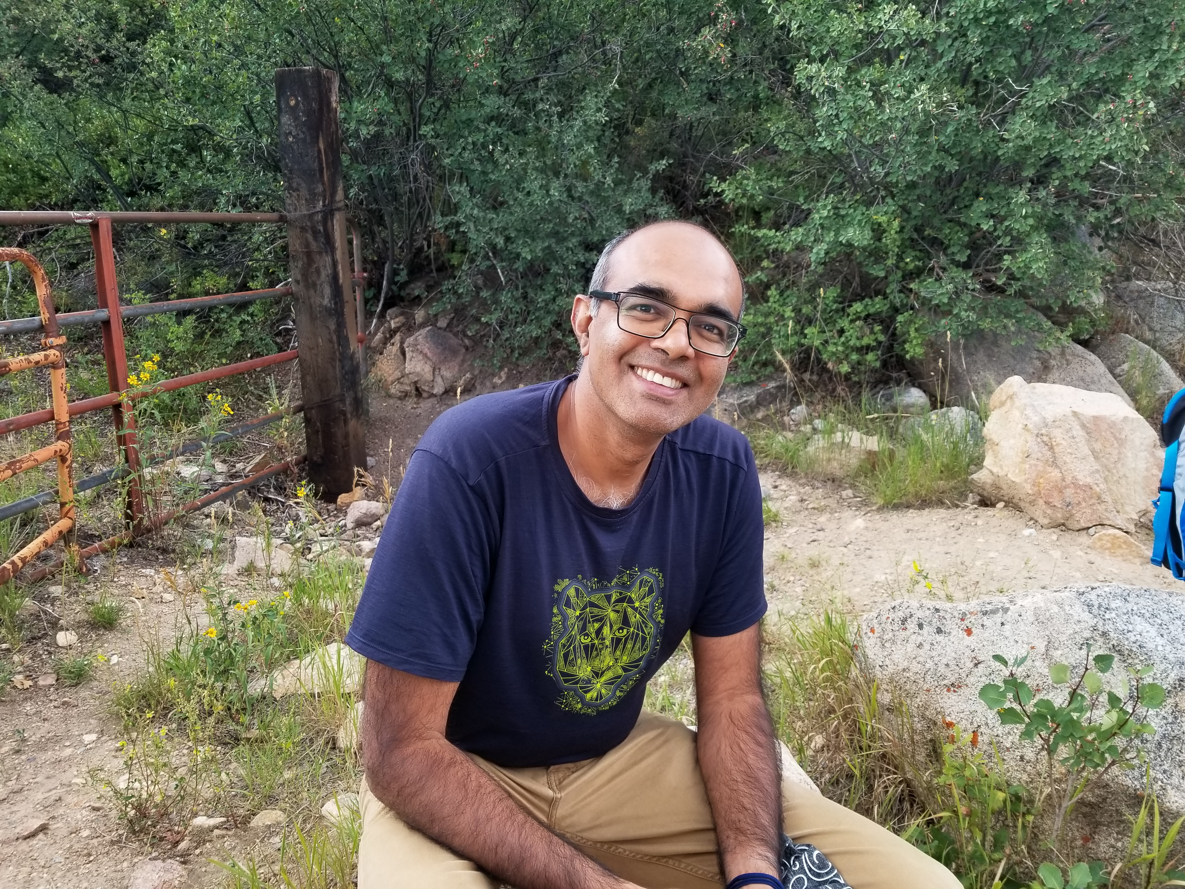 The theoretical physicist, Vijay Balasubramanian, in Aspen, Colorado, July 28, 2020